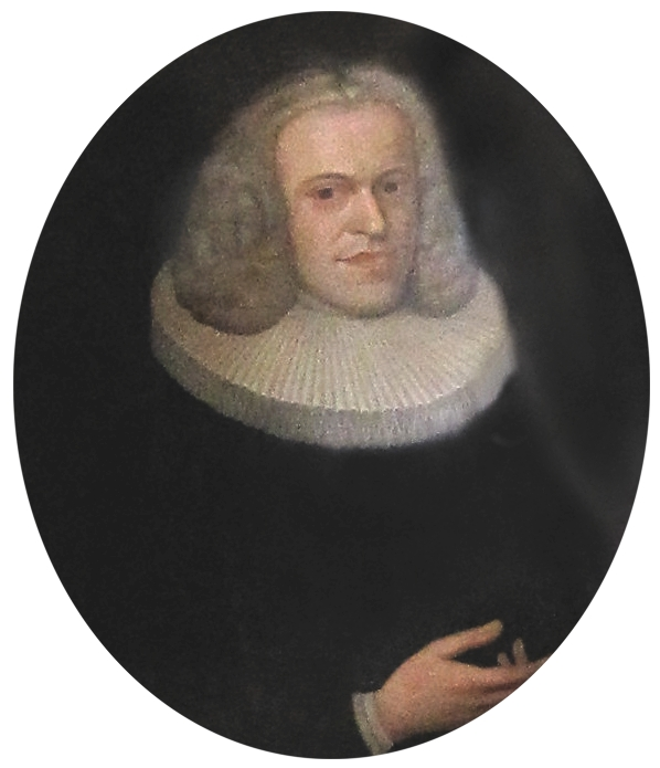 Epitaph for Georg Hermann Richerz (1716–1767) in St. Jakobi, Lübeck